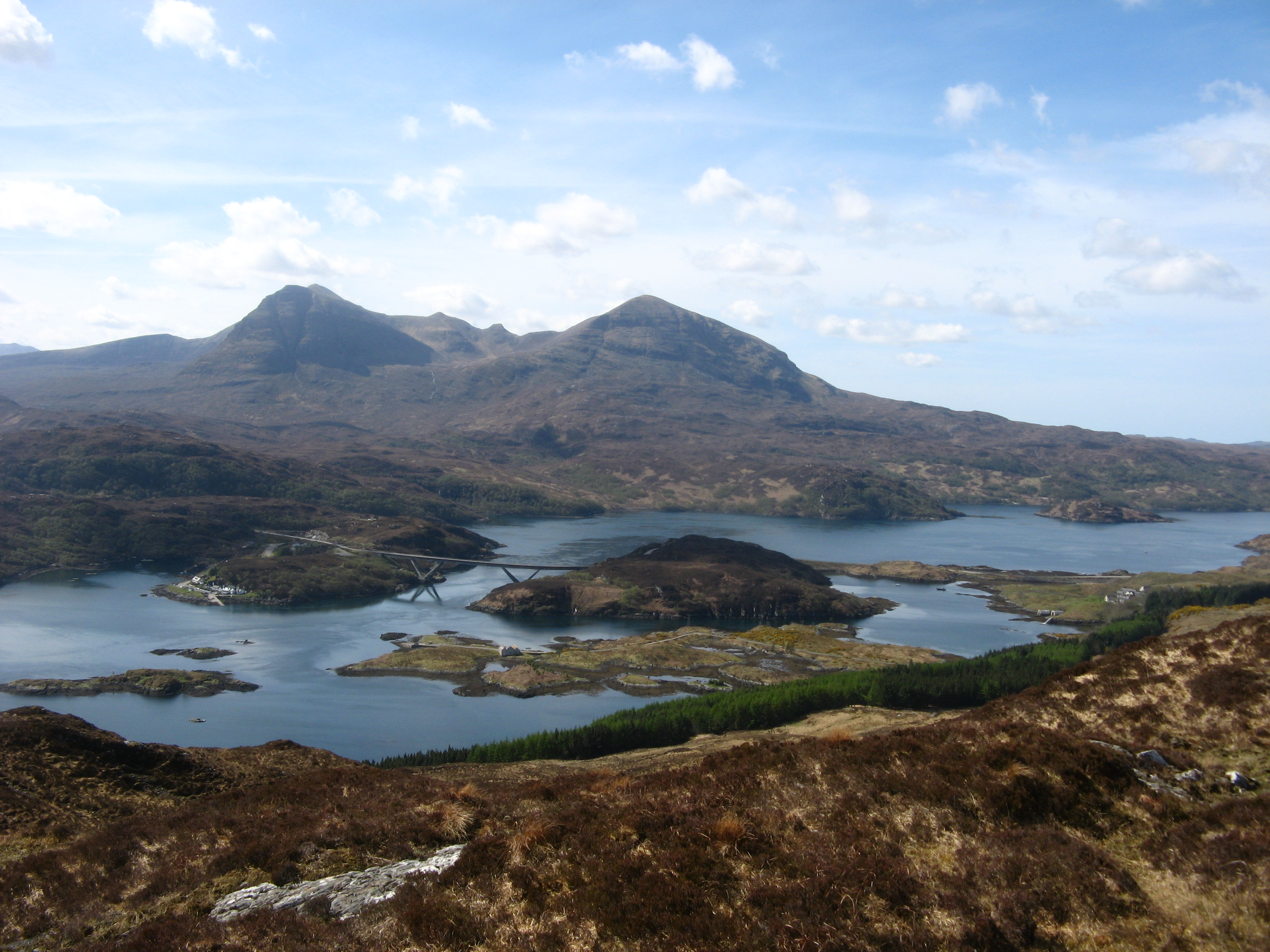 Kylesku village, the bridge and former ferry landings